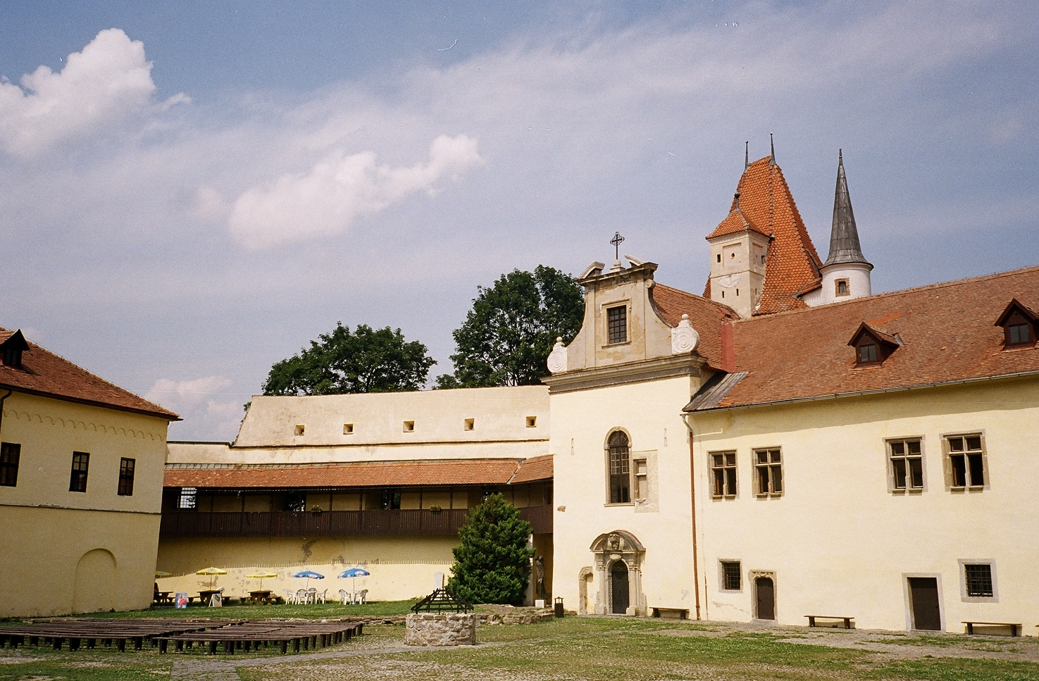 Inside the Kežmarok castle